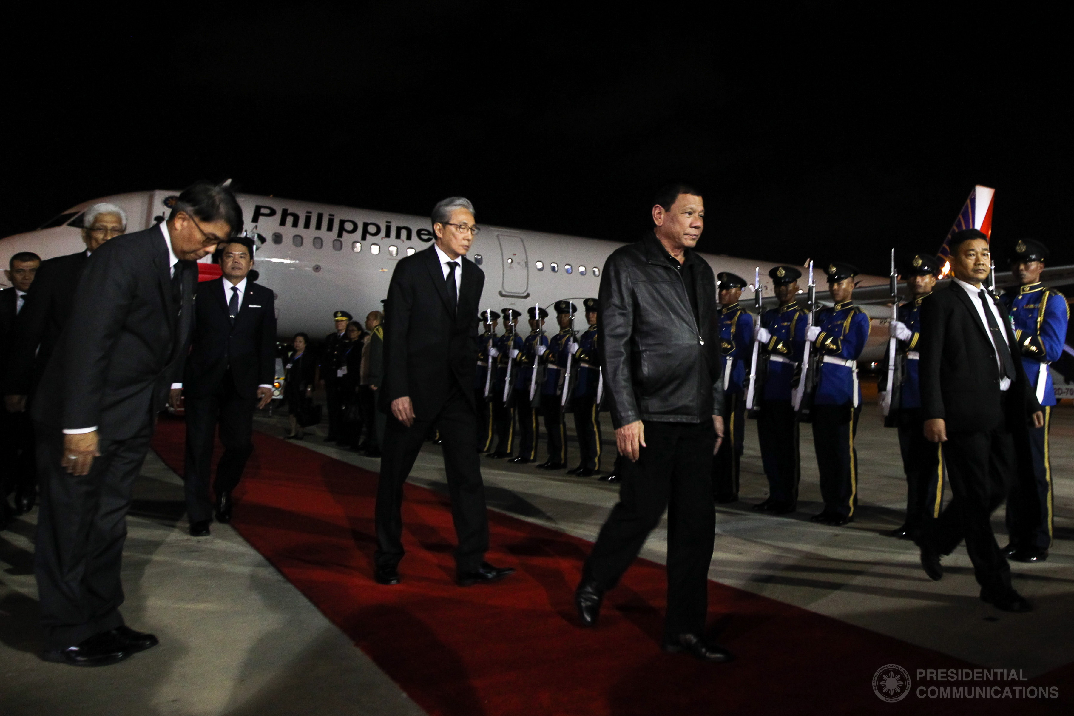 President Rodrigo Roa Duterte is joined by Thailand Deputy Prime Minister Somkid Jatusripitak as he walks past the honor guards upon his arrival at the Royal Thai Airforce, Military Air Terminal in Bangkok, Thailand on March 20, 2017. KING RODRIGUEZ/Presidential Photo